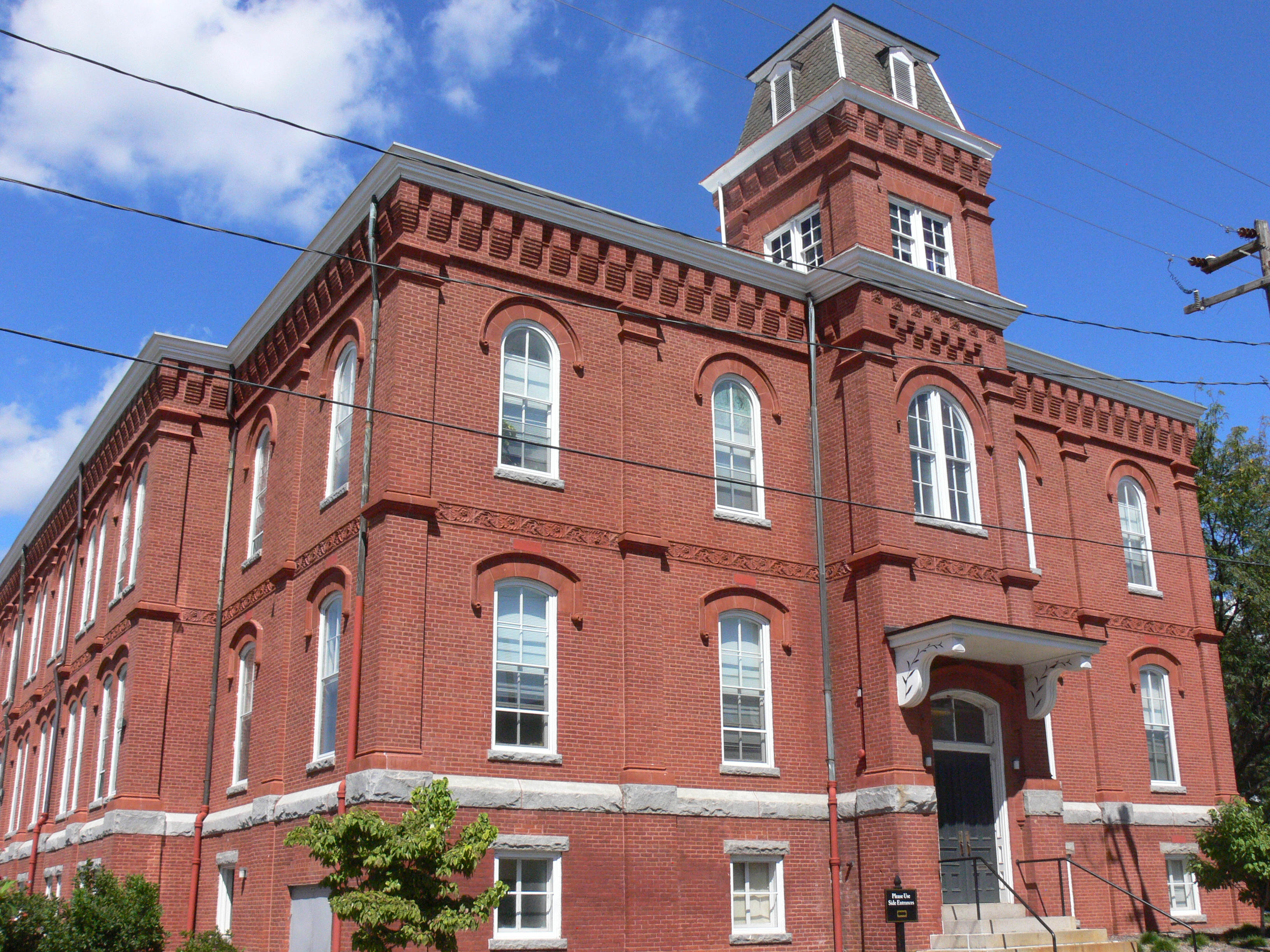 The former Randolph School (now apartments) in the Randolph neighborhood of Richmond, Virginia, on the National Register of Historic Places